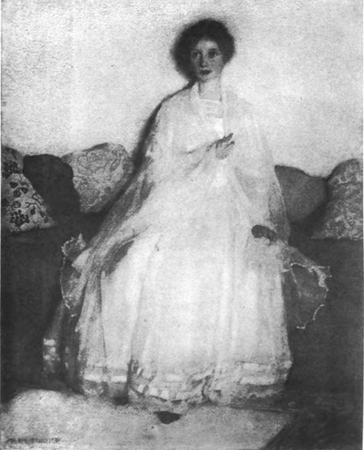 Black and white reproduction of "Young Girl in White" by Hilda Belcher. Caption reads: From "Art and Progress." "Young Girl in White" by Hilda Belcher. Beal prize, New York Water Color Club, 1909.